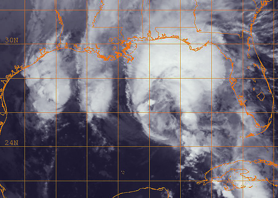 GULF OF MEXICO (Nov. 9, 2009) A GOES-12 infrared satellite image of Hurricane Ida provided by the U.S. Naval Research Laboratory in Monterey, Calif. shows the storm at 7:45 a.m. EST Monday, Nov. 9, 2009. Ida, later downgraded to a tropical storm, is expected to make landfall near the Florida-Alabama border Tuesday morning. (U.S. Navy photo/Released)